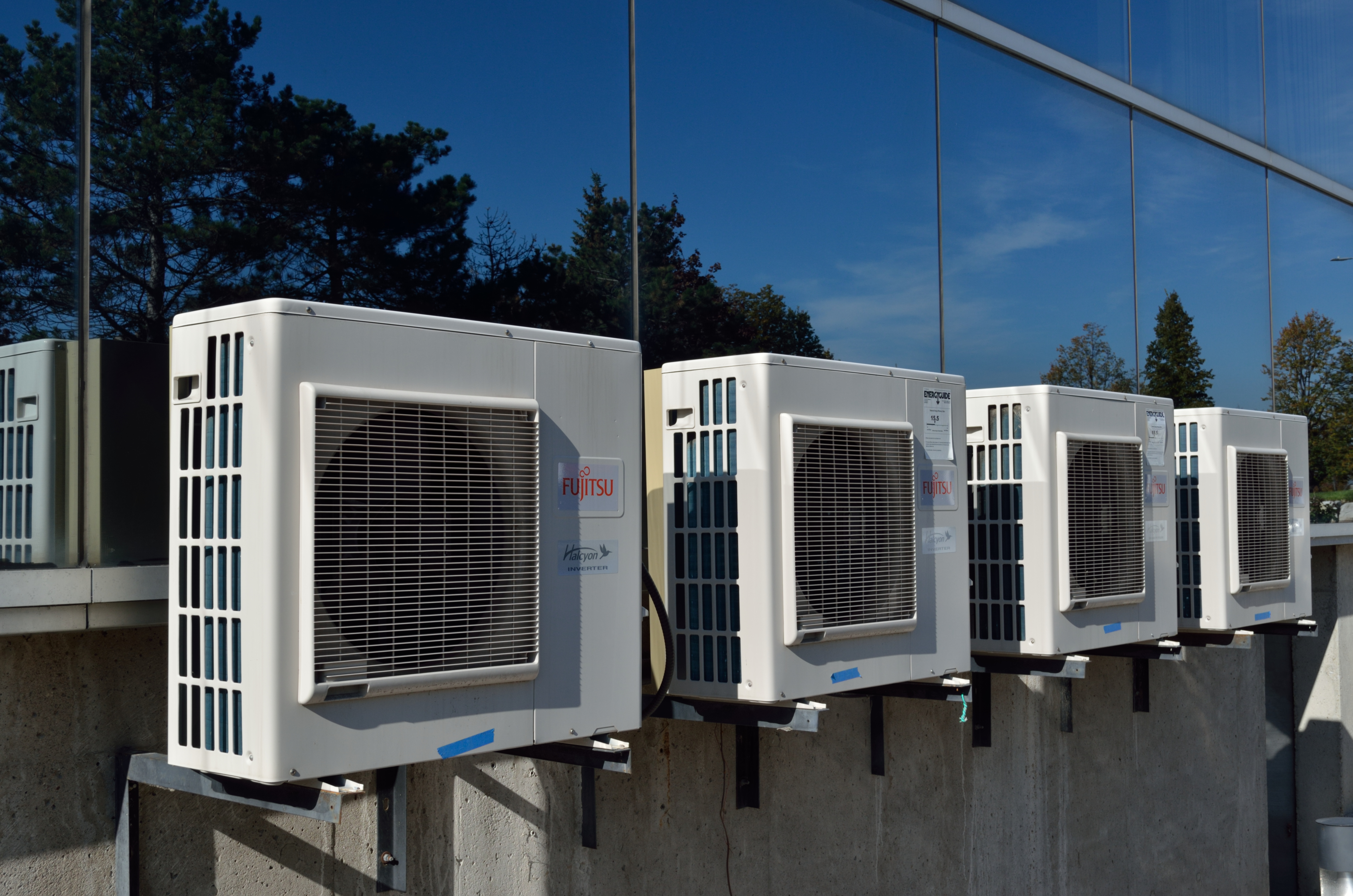 Air conditioners made by Fujitsu